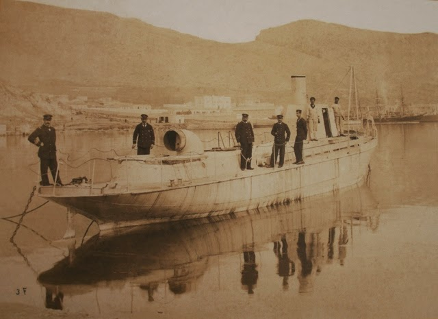 Greek gunboat "Alpha", 1912 , author unknown